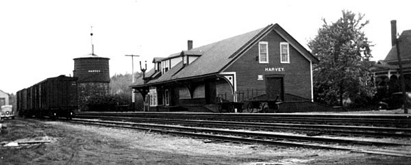 The train station in Harvey Station, New Brunswick, circa 1940.